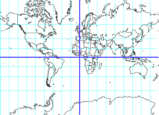 World map in Mercator projection. Made with maps and mapproj packages of GNU R. Latitude and longitude lines through 20 degrees. The reason for uploading this image: the existing image from USGS is not suitable for non-english wikipedias.